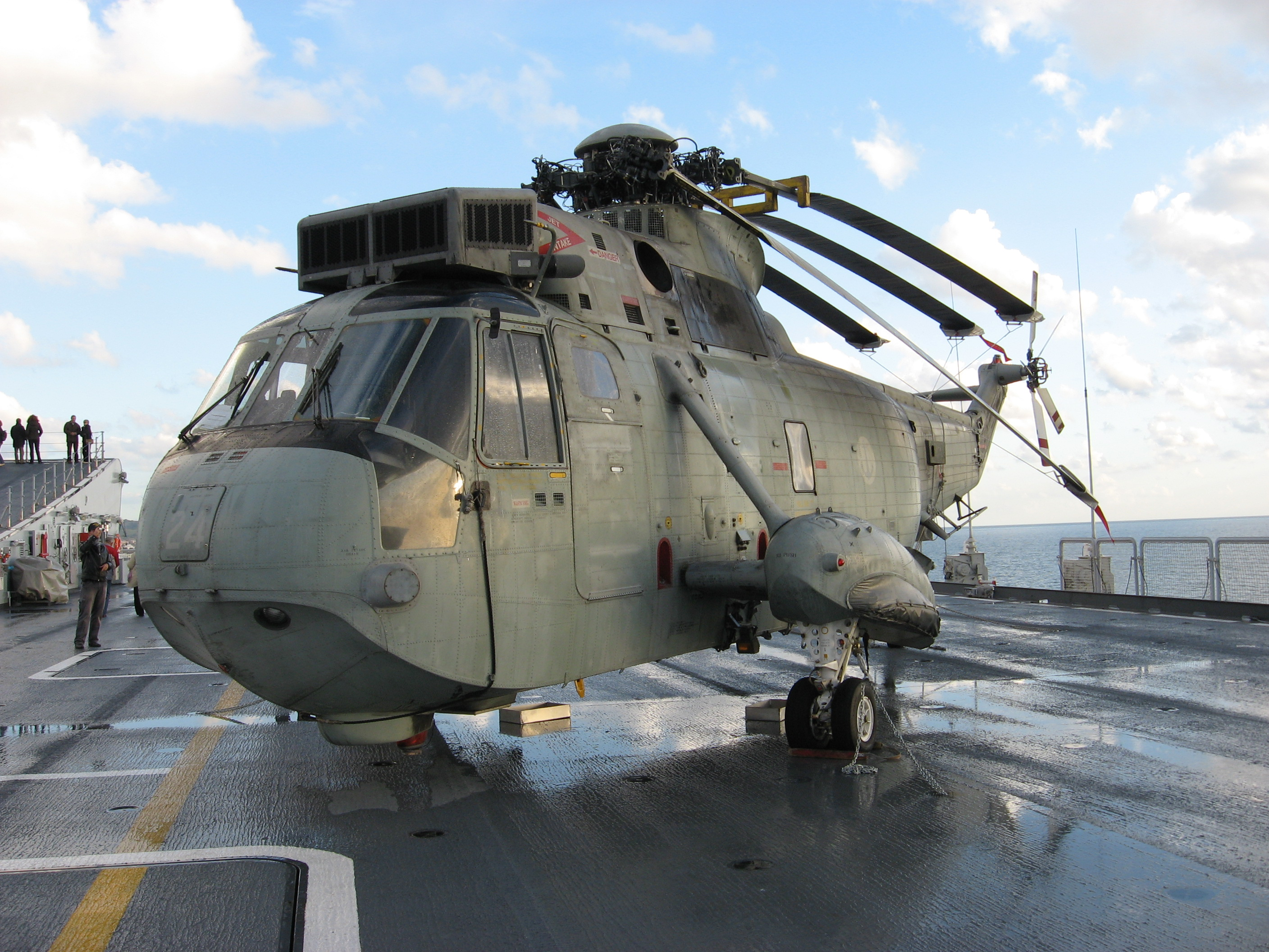 Italian Navy SH-3D on Cavour carrier